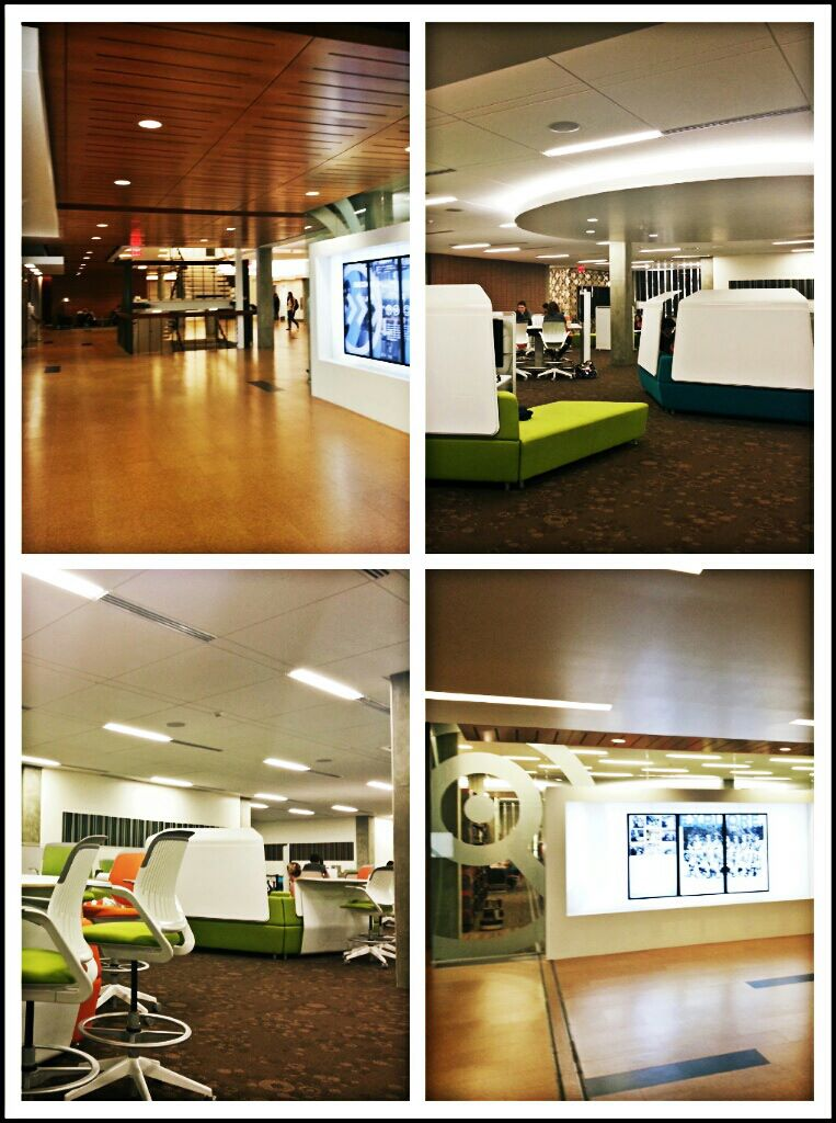 Charles E. Young Research Library has a futuristic, modern interior designed spaces.